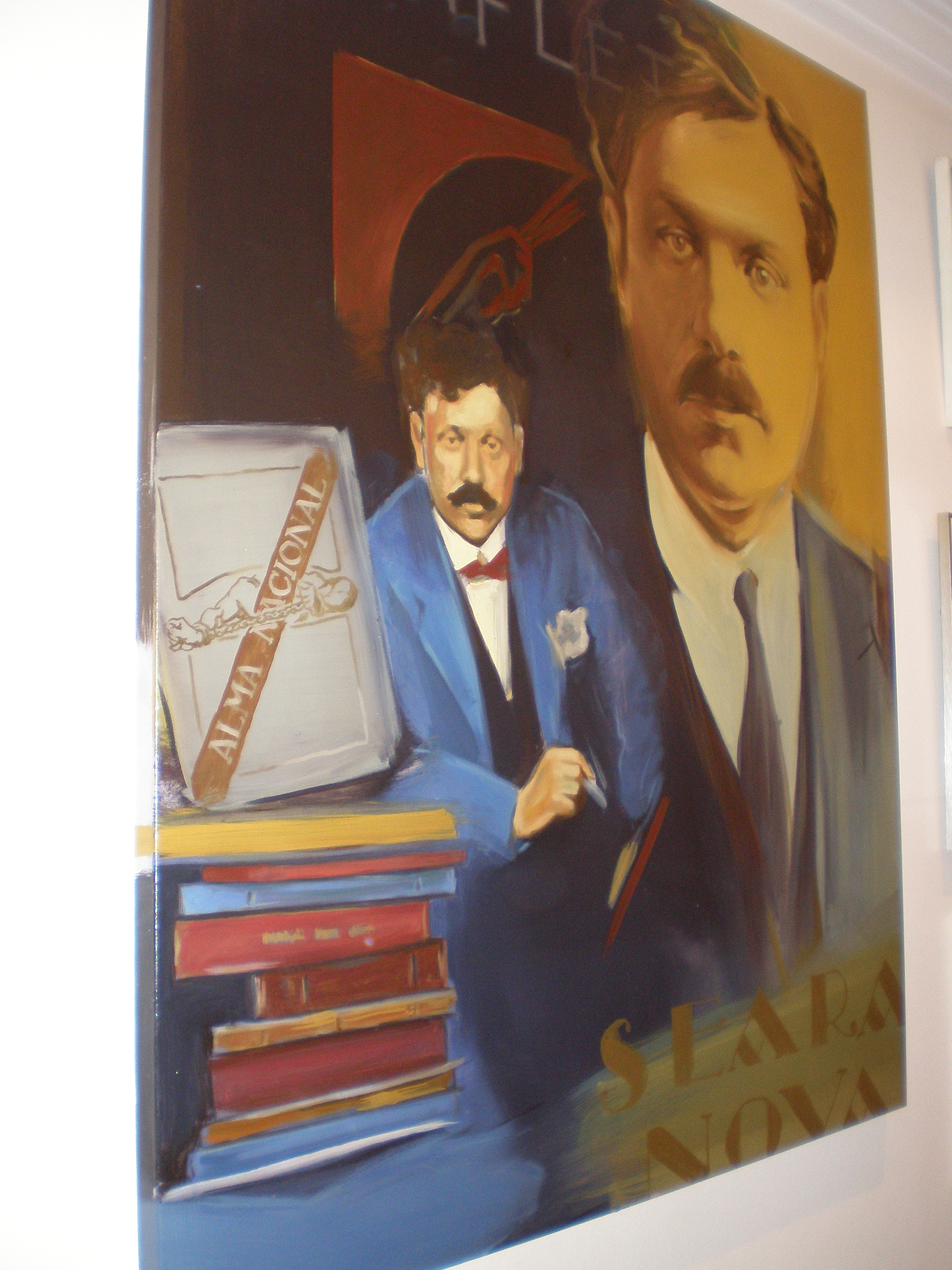 Raul Proença